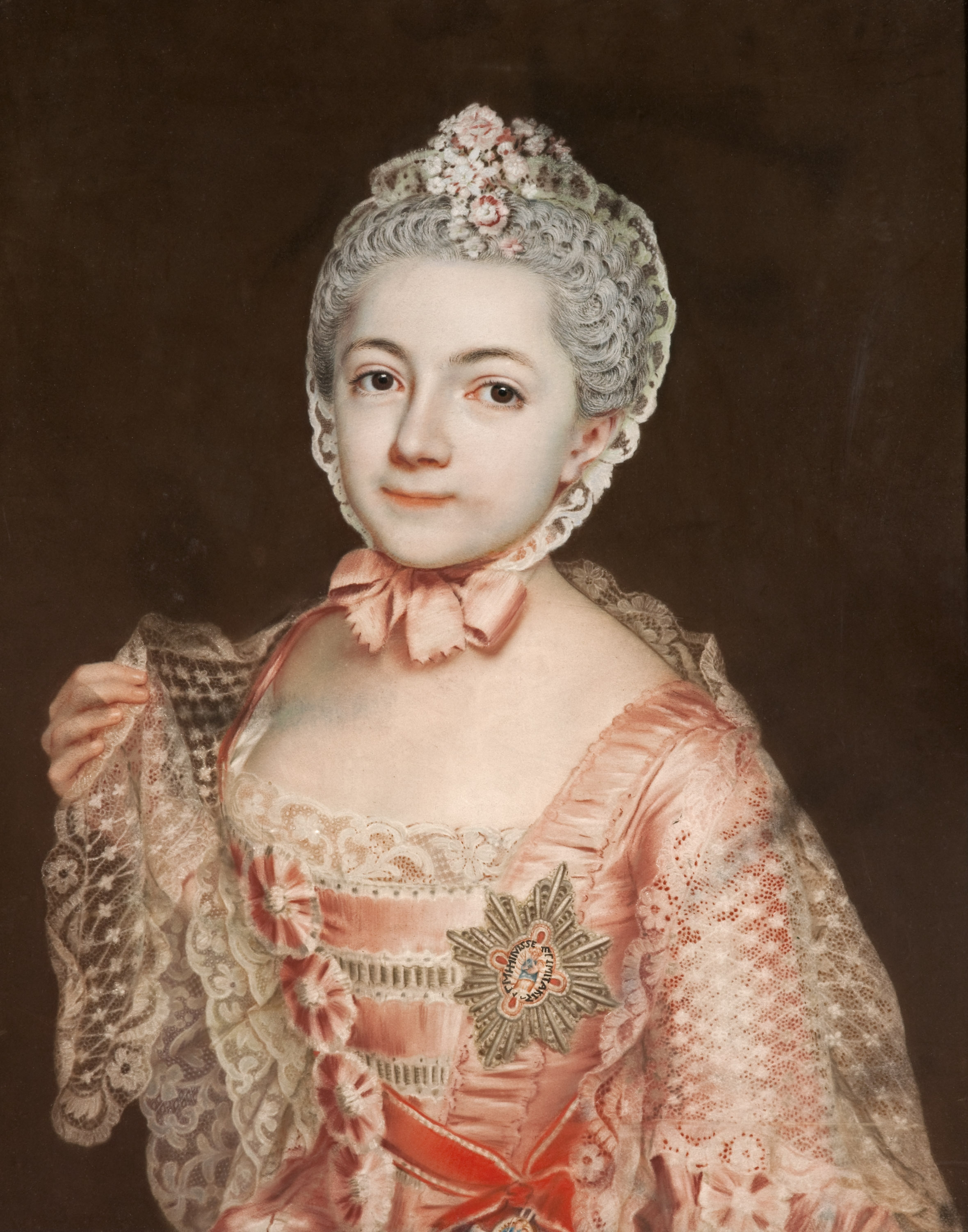 Henrietta Catherine Agnes of Anhalt-Dessau, Dean of Herford Abbey